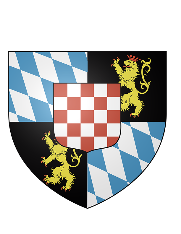 Coat of Arms Palatinate-Birkenfeld-Kleeburg